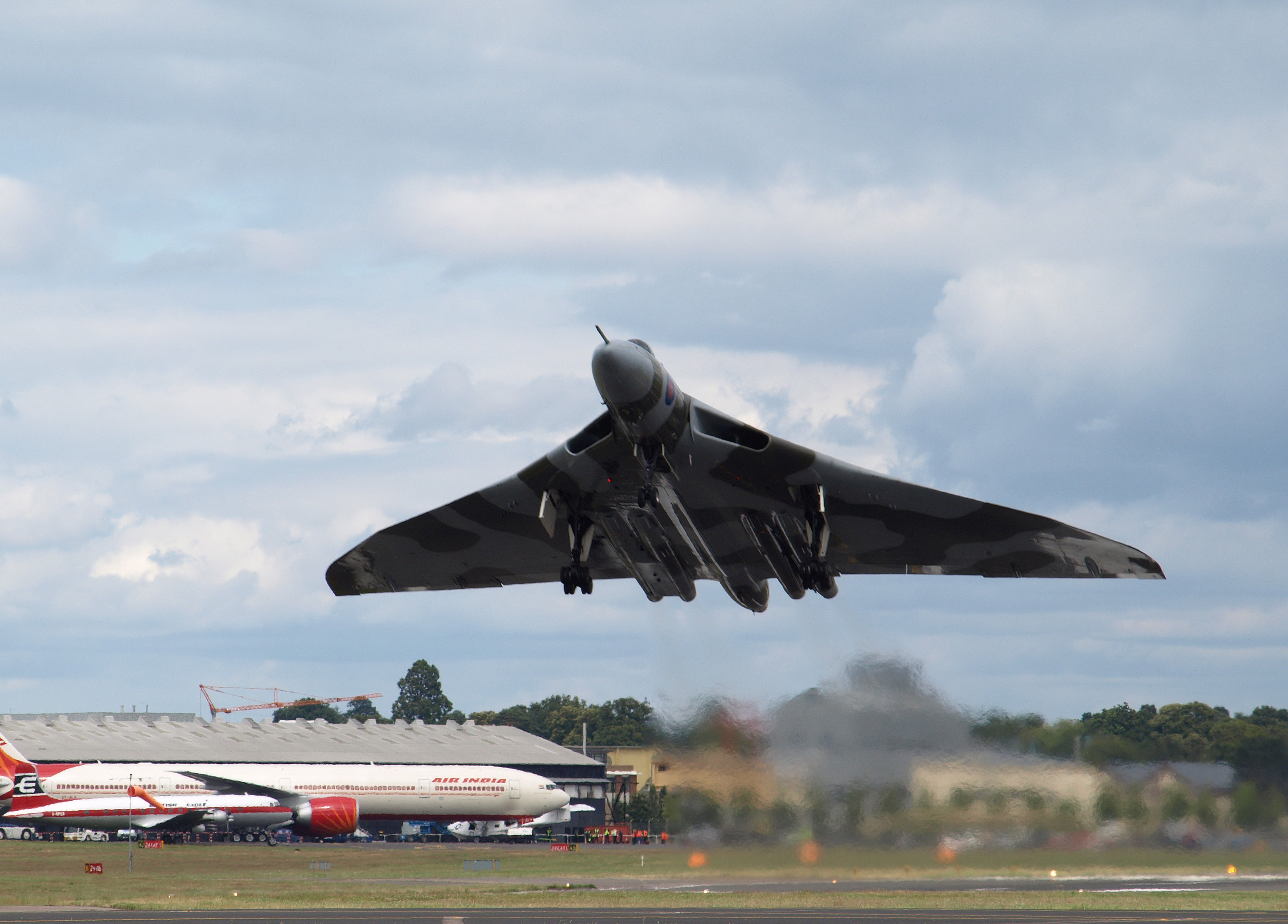 Avro Vulcan taking off; Farnborough international air show 2008